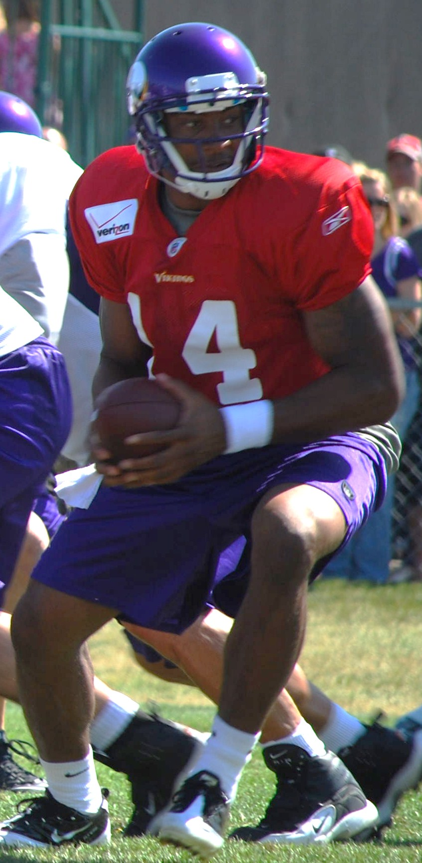 Minnesota Vikings quarterback Joe Webb practices with the team in training camp.